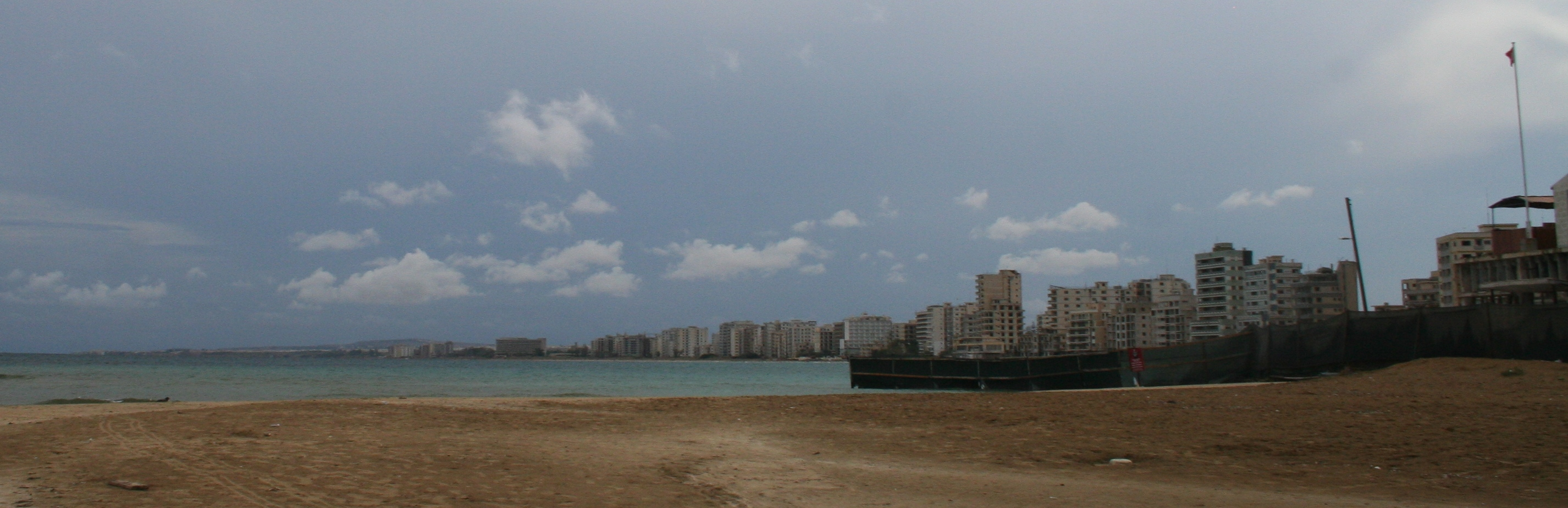 view from the beach of Famagusta in 2009